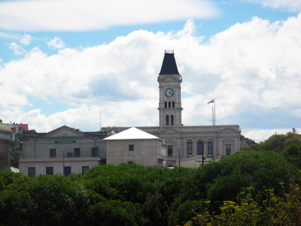 Clock in Oamaru, New Zealand, often described by Janet Frame. It is part of the former Oamaru Post Office, now the Waitaki District Council building, New Zealand Historic Places Trust Register number: 2294.